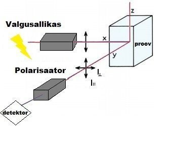 measurment of fluorescence anisotropy